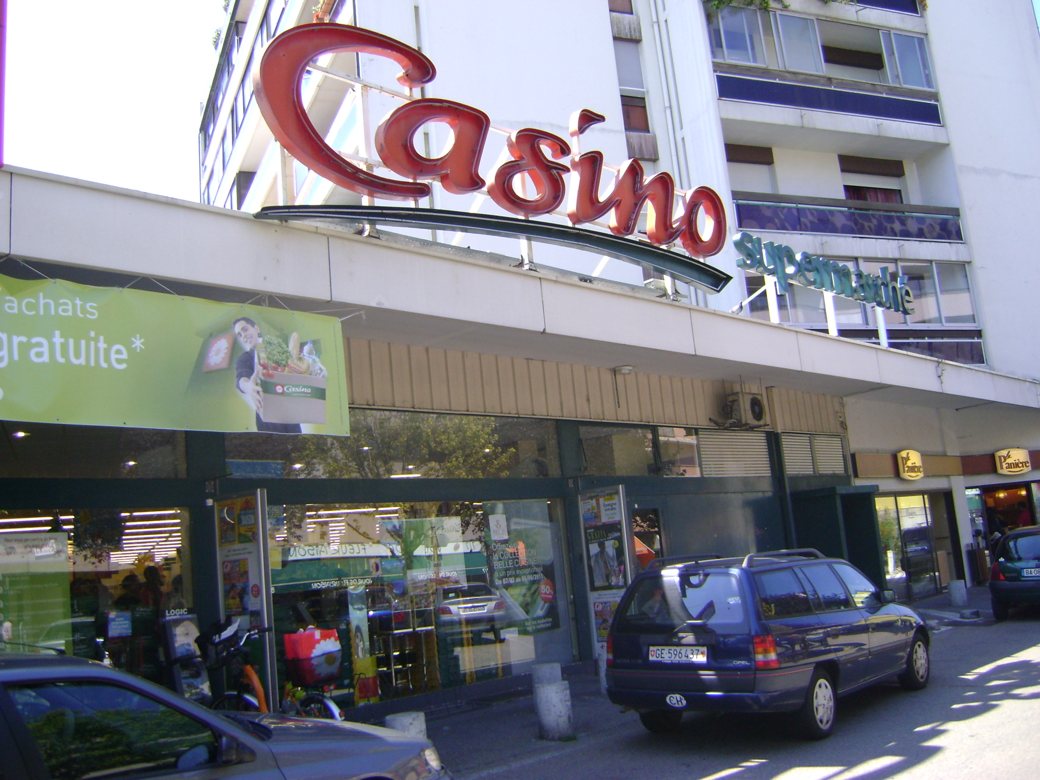 Casino Supermarket, in Annemasse, Haute-Savoie, France.